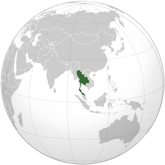 Map of Kingdom of Thailand World War II